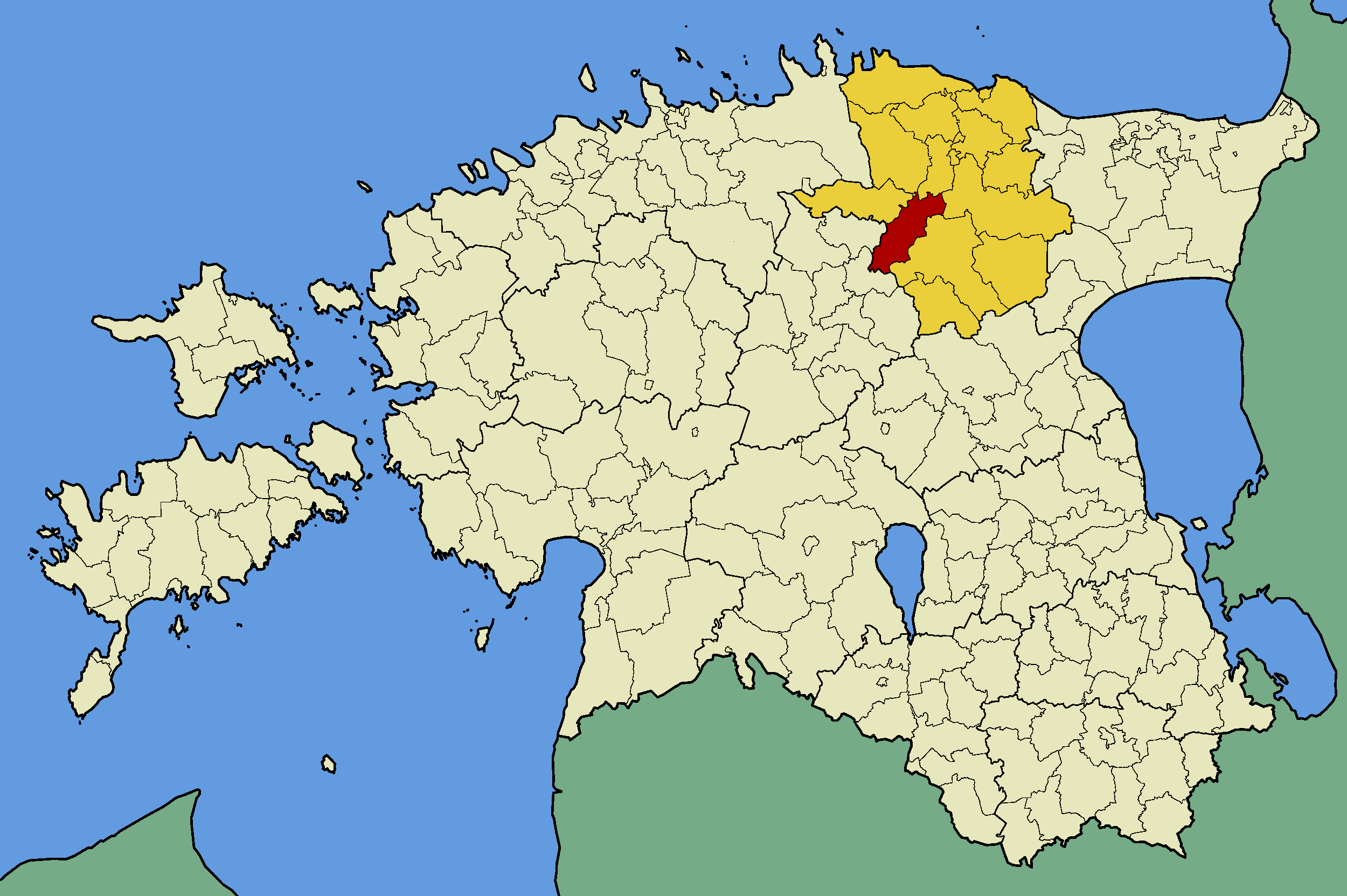 Map of Estonia with borders of municipalities (parishes). Lääne-Viru county and Tamsalu municipality emphasized.